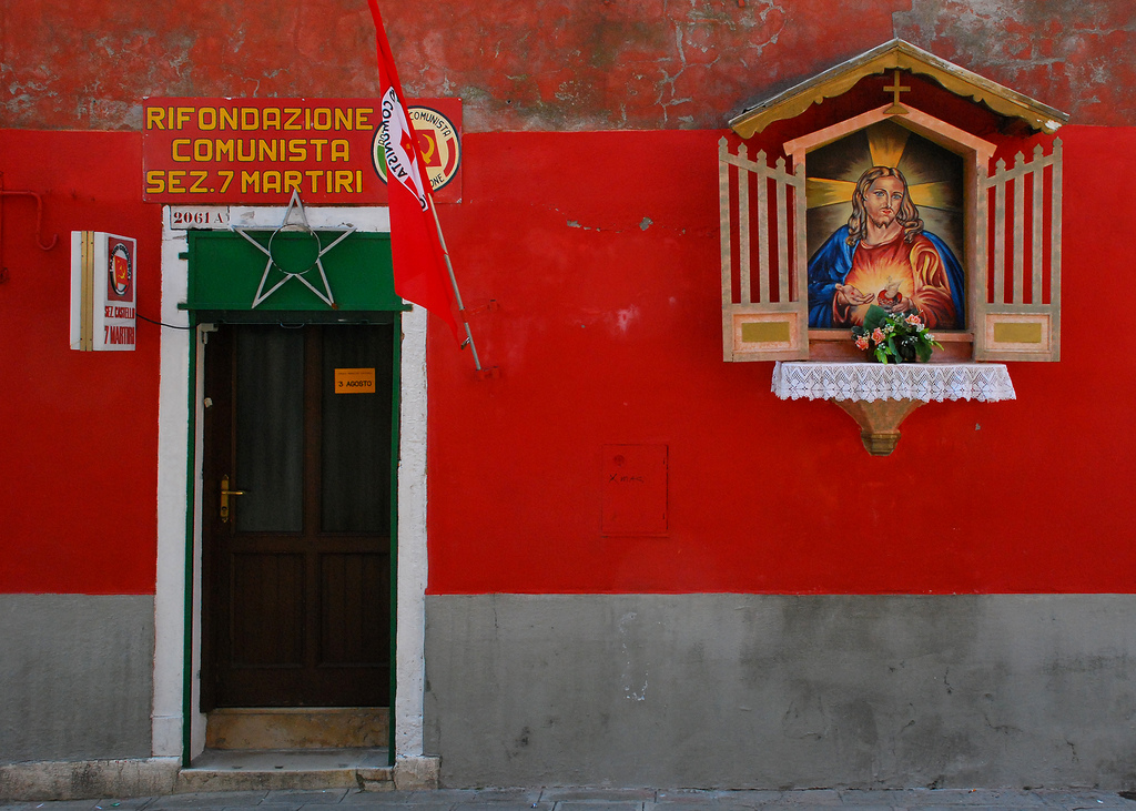 Communist HQ near the Arsenale in Venice - complete with shrine to the Sacred Heart! Only in Italy...